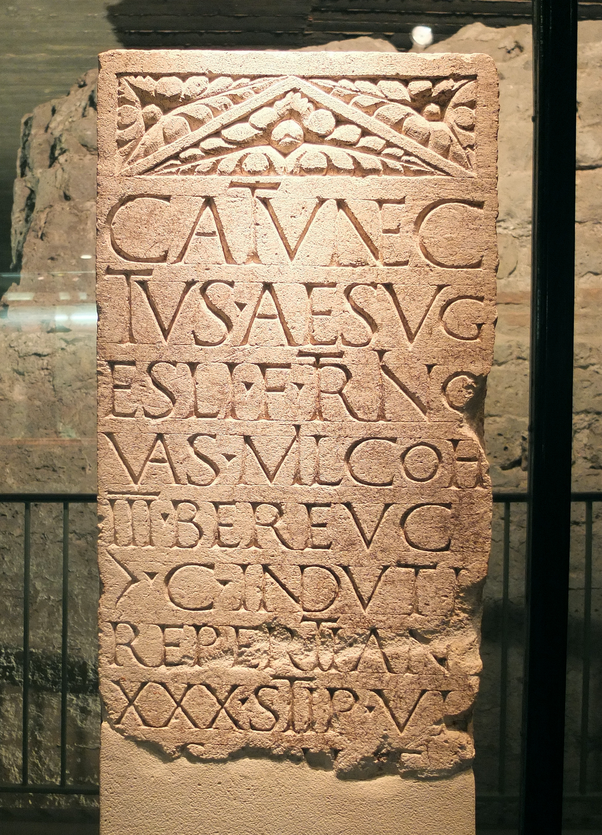 Epitaph for the Celtic soldier CATVNECTVS (1st century A.D.) in the Praetorium Museum (Cologne) On the origin of the name Catunectus Description of the epitaph